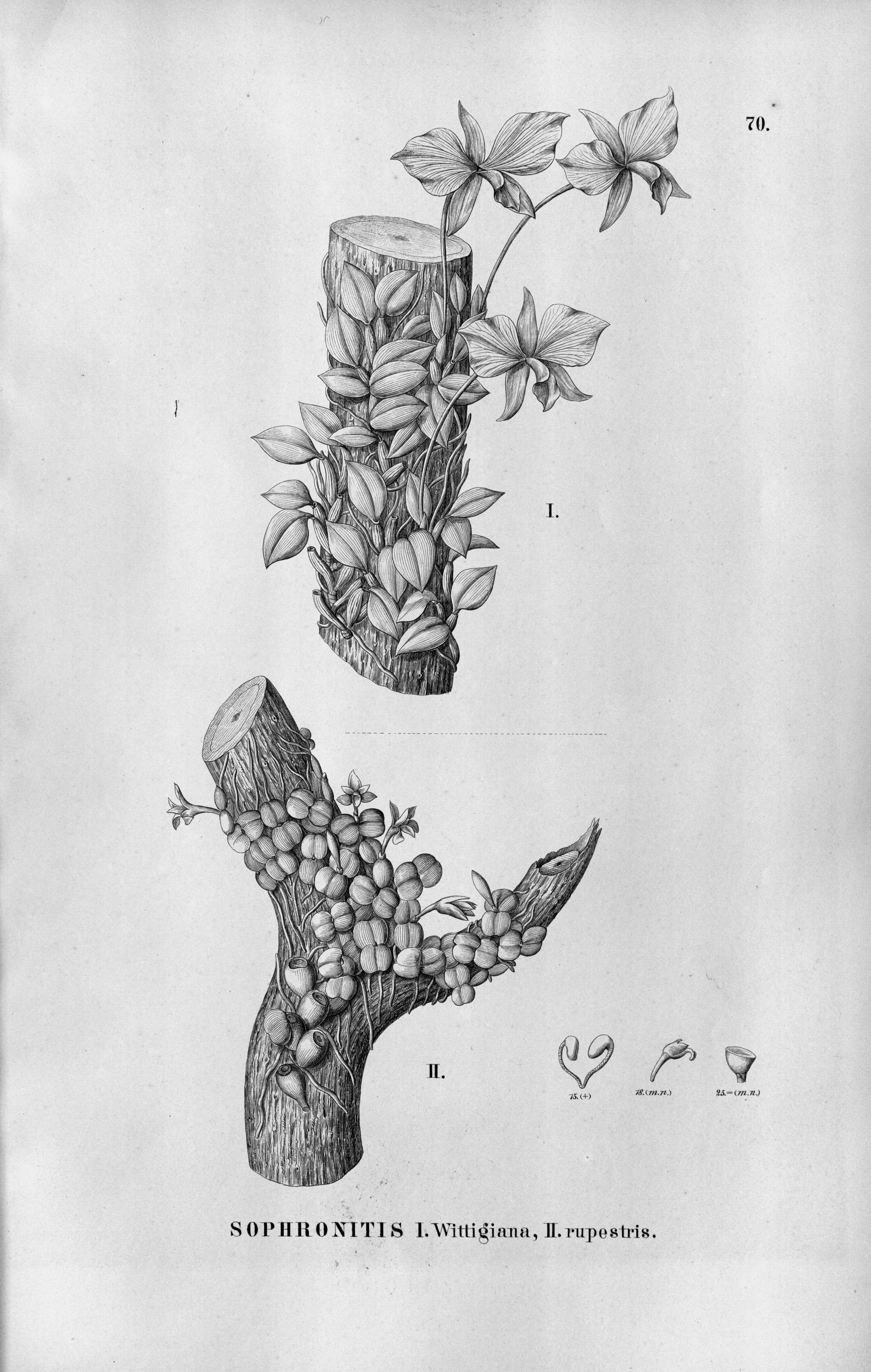 Illustration of : I. Cattleya wittigiana (as syn. Sophronitis wittigiana) II. Constantia rupestris (as syn. Sophronitis rupestris)